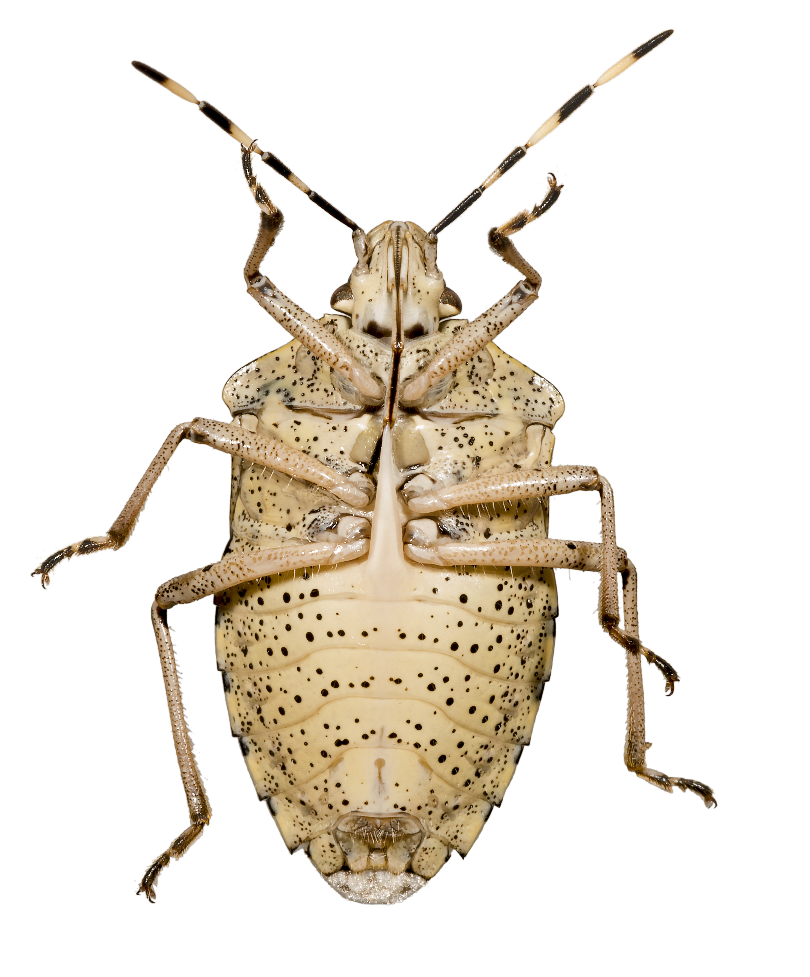 Rhaphigaster nebulosa, Ventral side, showing the typical lower spur of the species.